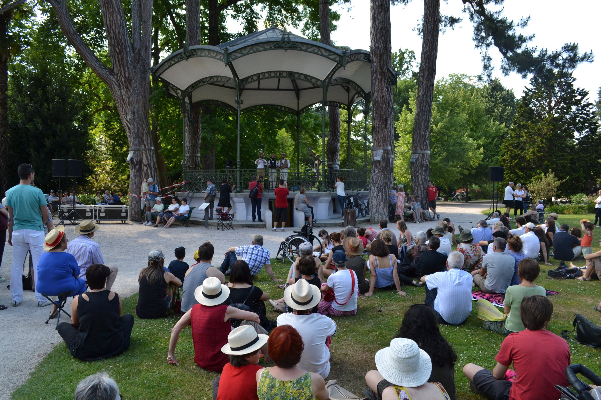 Aqueles concert in Tarbes during Tarba en Canta 2015.